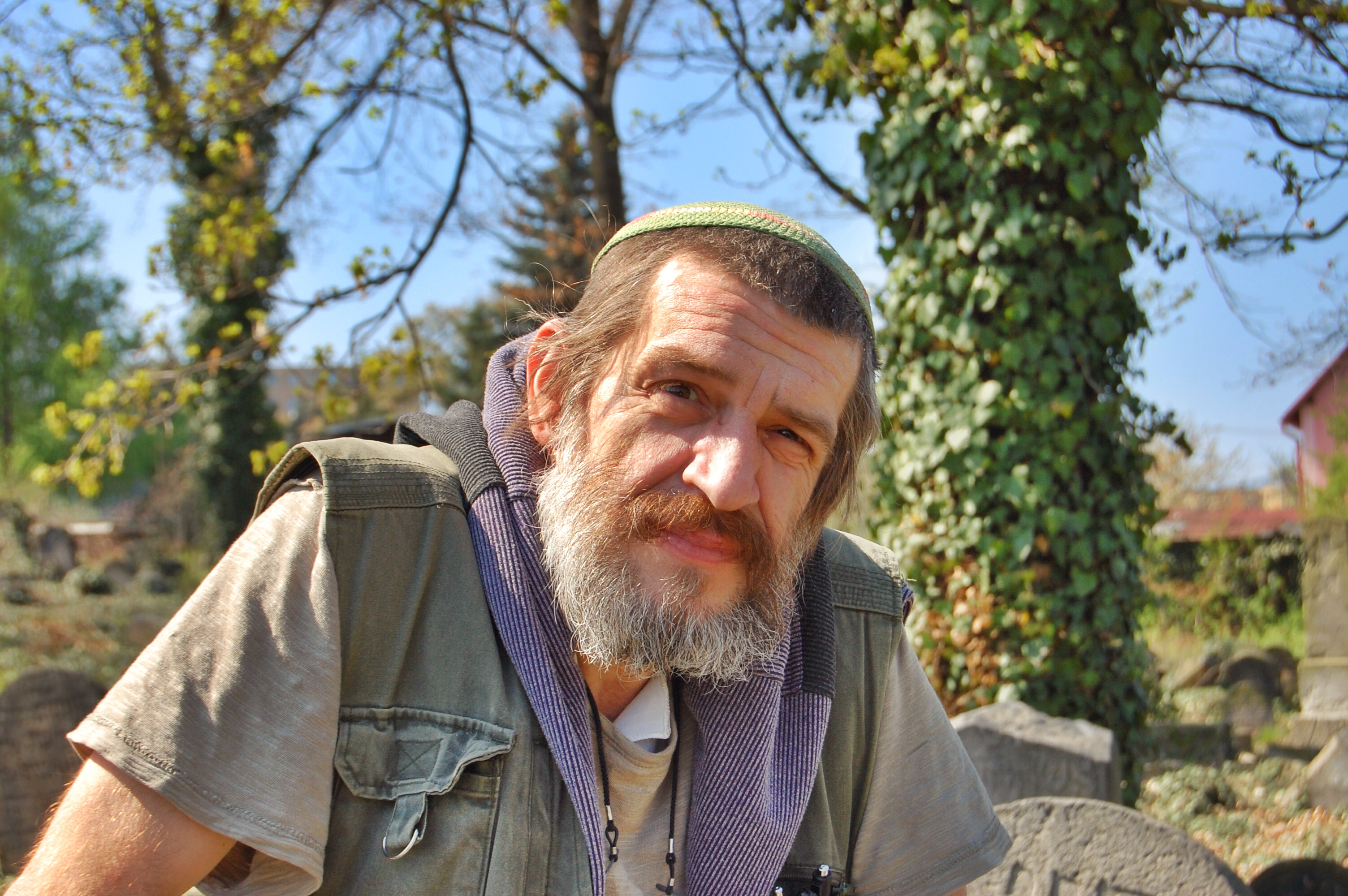 Jaroslav Achab Haidler at Jewish cemetery in Sobědruhy, Czech Republic. Česky: Jaroslav Achab Haidler na židovském hřbitově v obci Sobědruhy, která je součástí města Teplice v České republice.